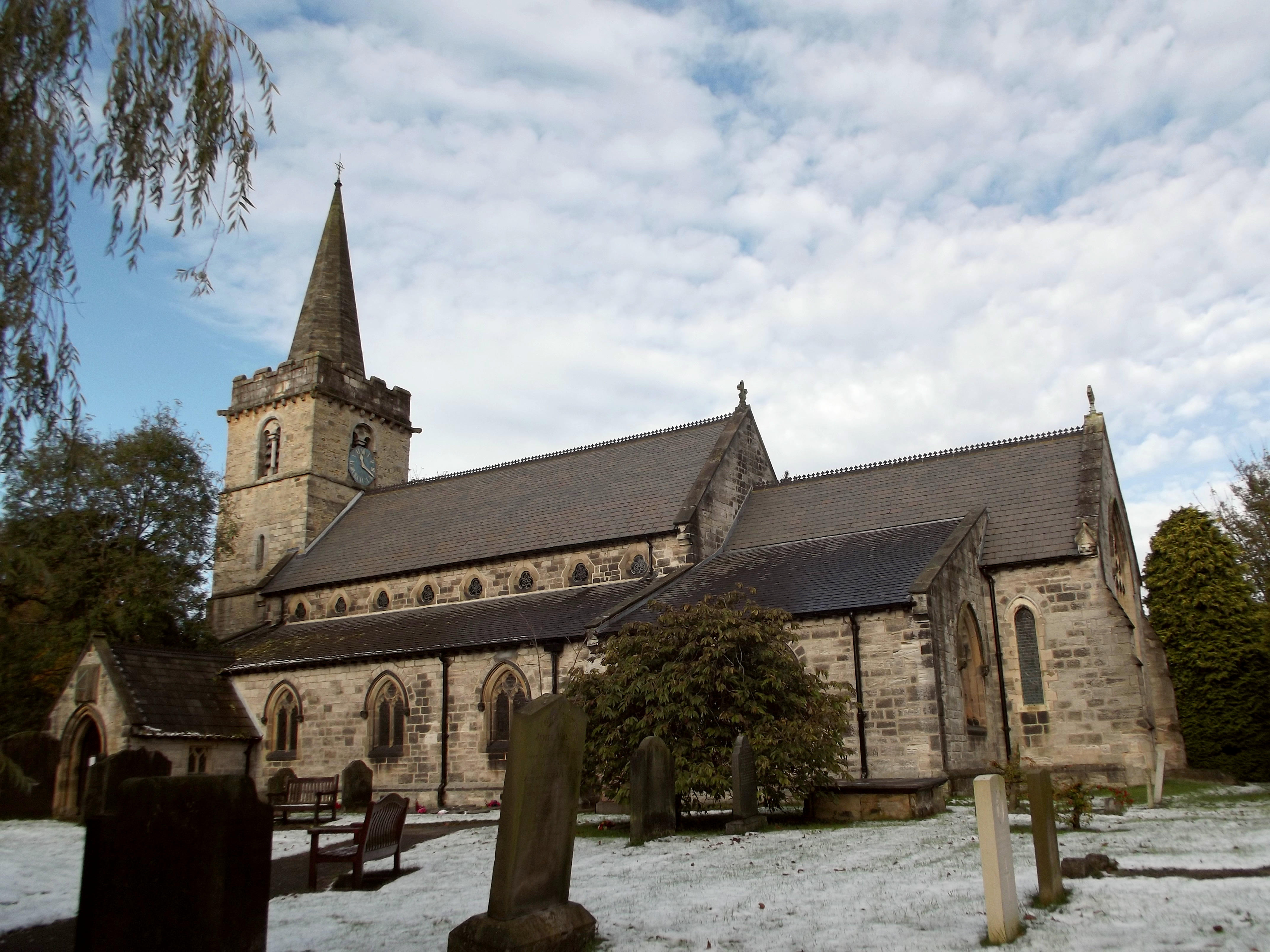 St Ricarius Church, Aberford, West Yorkshire, England. Originally a medieval church, of which only the tower remains. The nave was mostly rebuilt in 1862 to a design by Anthony Salvin, but it includes an 1830 east wall. The stone carving on the building is by Mawer and Ingle, who also carved the pulpit. Showing south side.